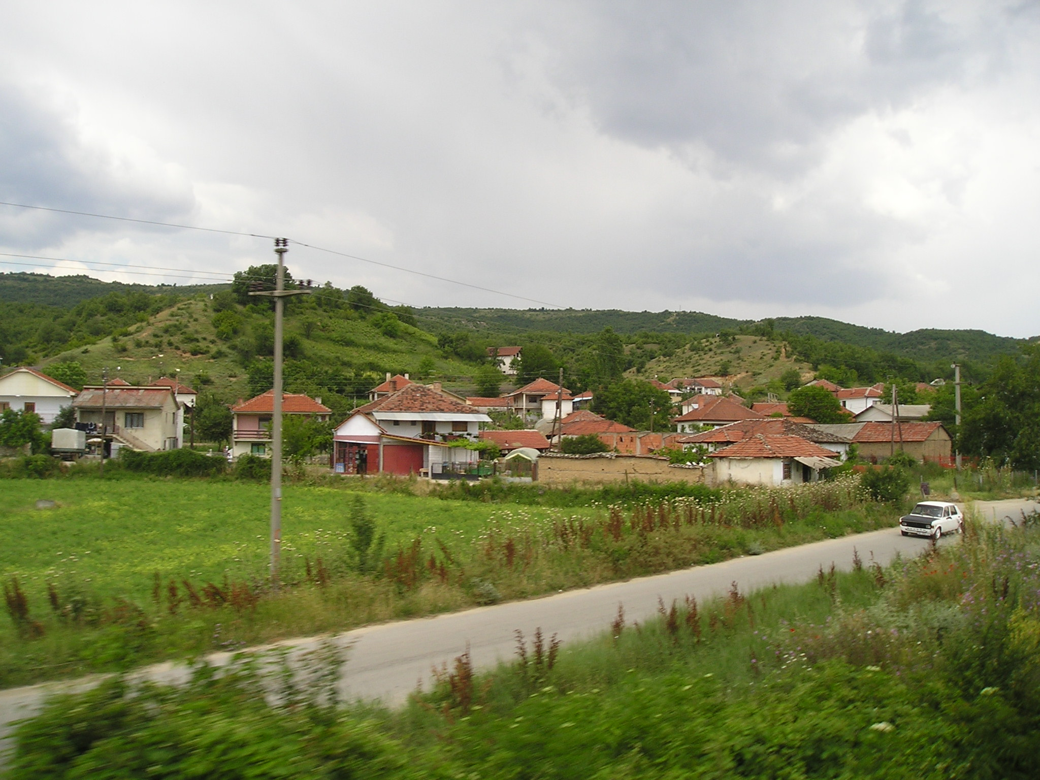 A view over part of the village of Oreshani from the railway Skopje - Veles, Republic of Macedonia.